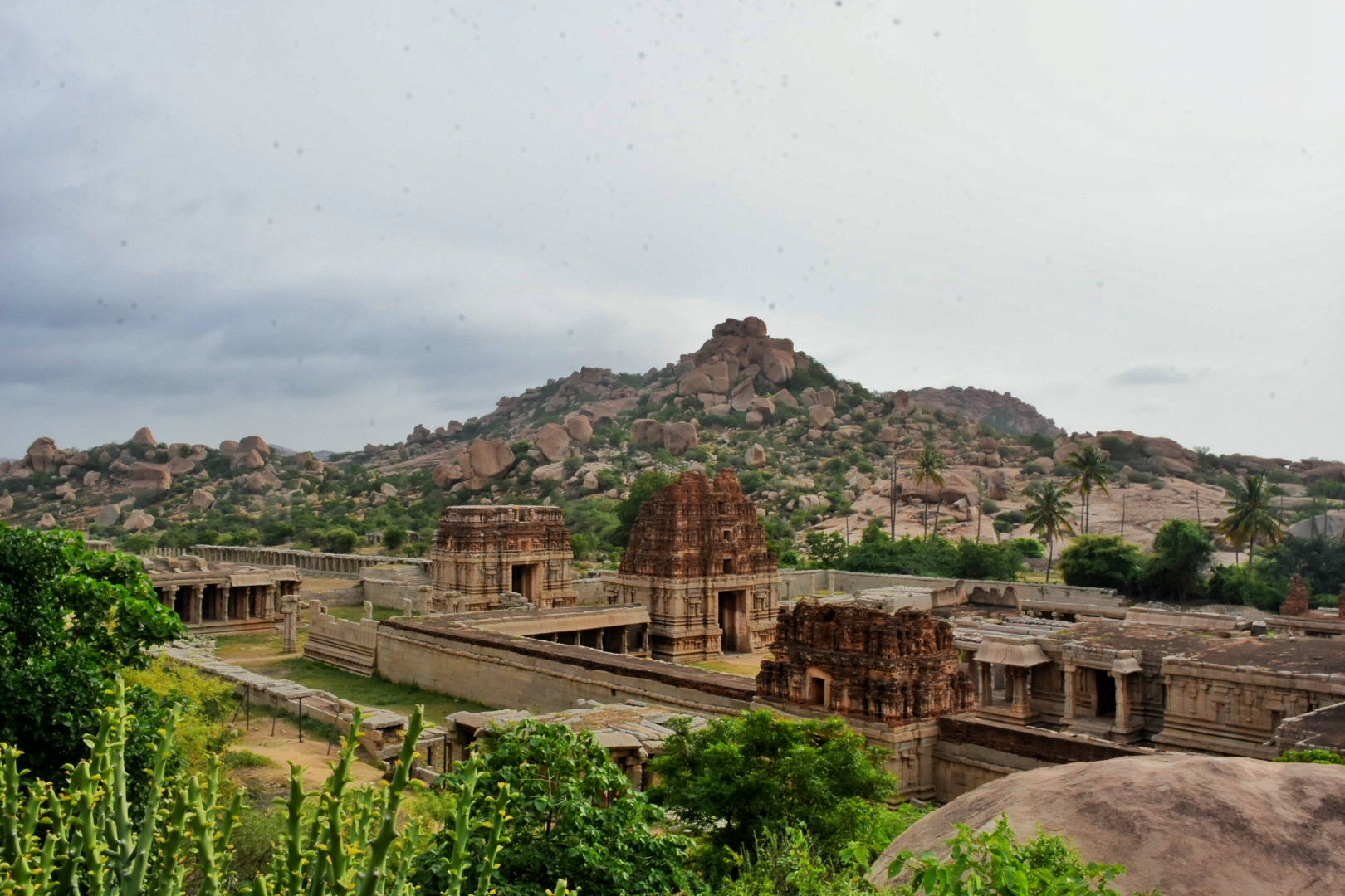 Hampi ruins photograph by Arun Jayan